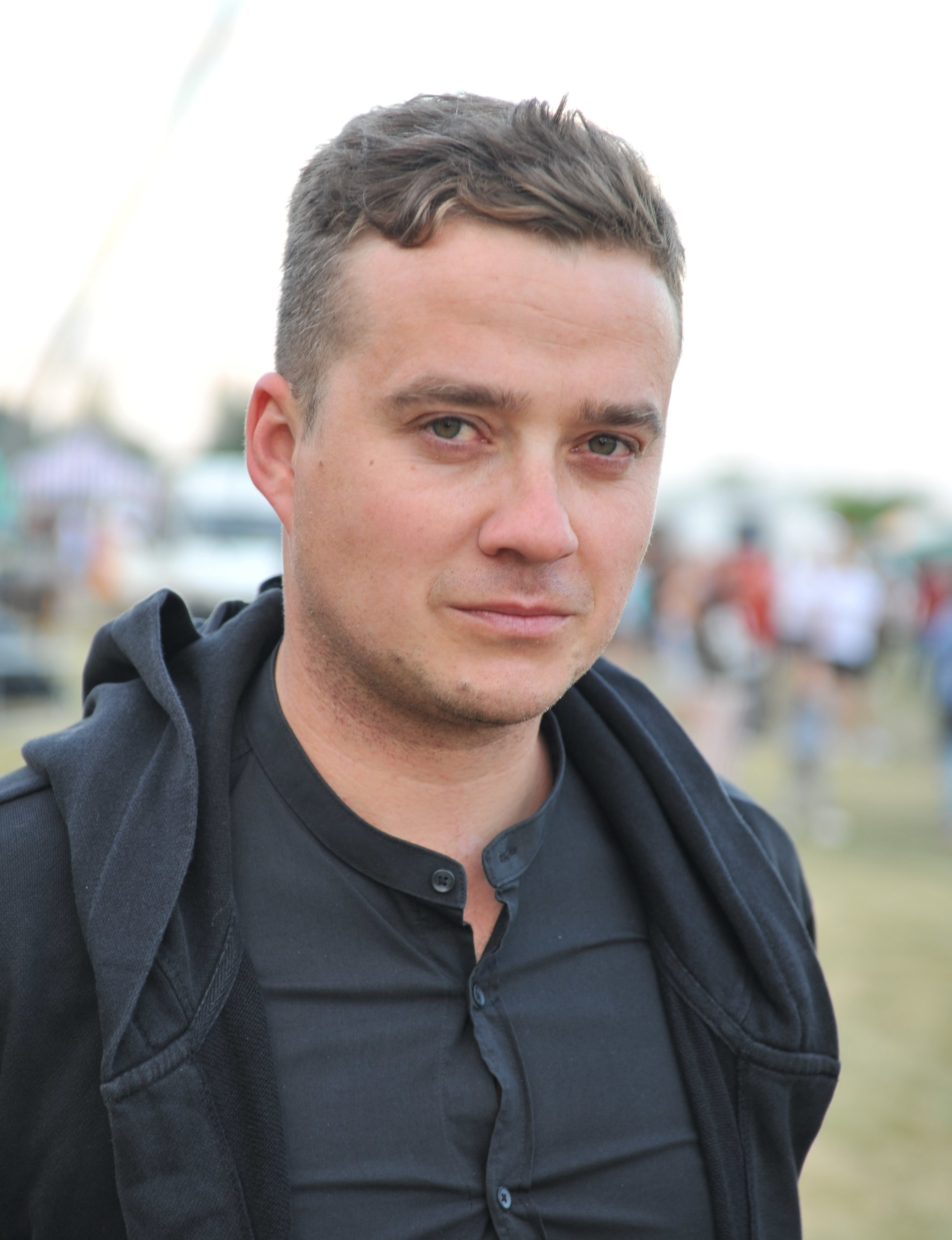 Szymon Chyc-Magdzin, a member of the Future Folk band. Opatowiec, 8 July 2018.